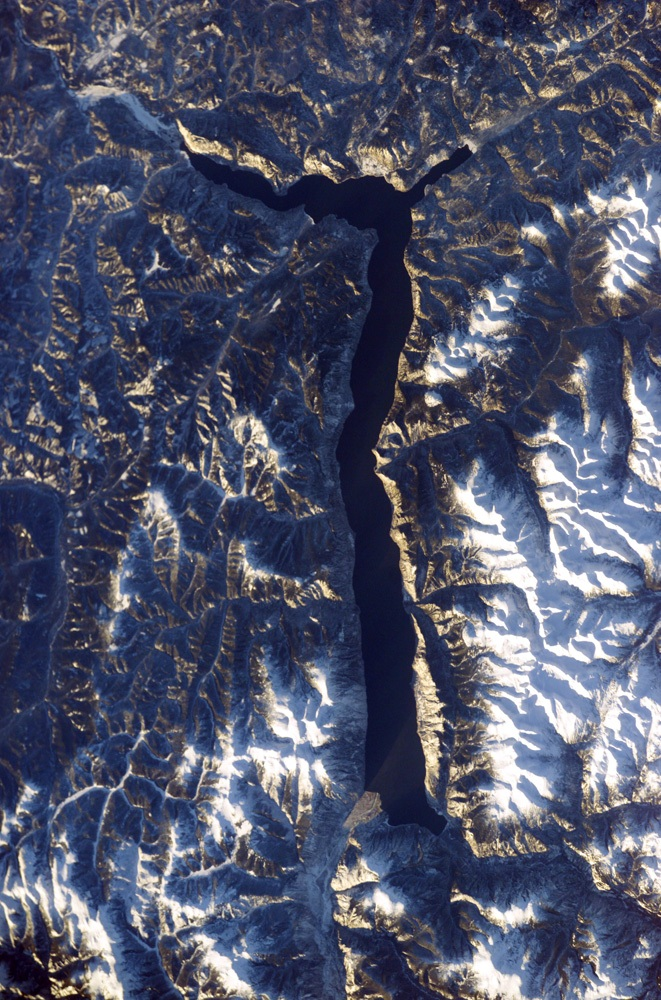 Lake Teletskoye, Sibera, Russia. The Tchulyshman River flows into the lake from the south end (bottom).